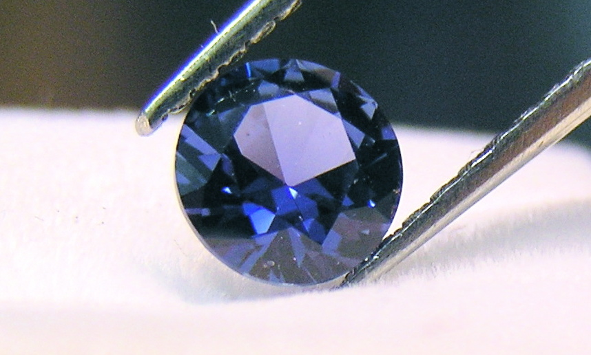 Yogo Sapphire, 0.65 carat AAA quality gem, gem mined in Yogo gulch, Montana, image taken at Barnes Jewelry, Helena, MT with permission of owners